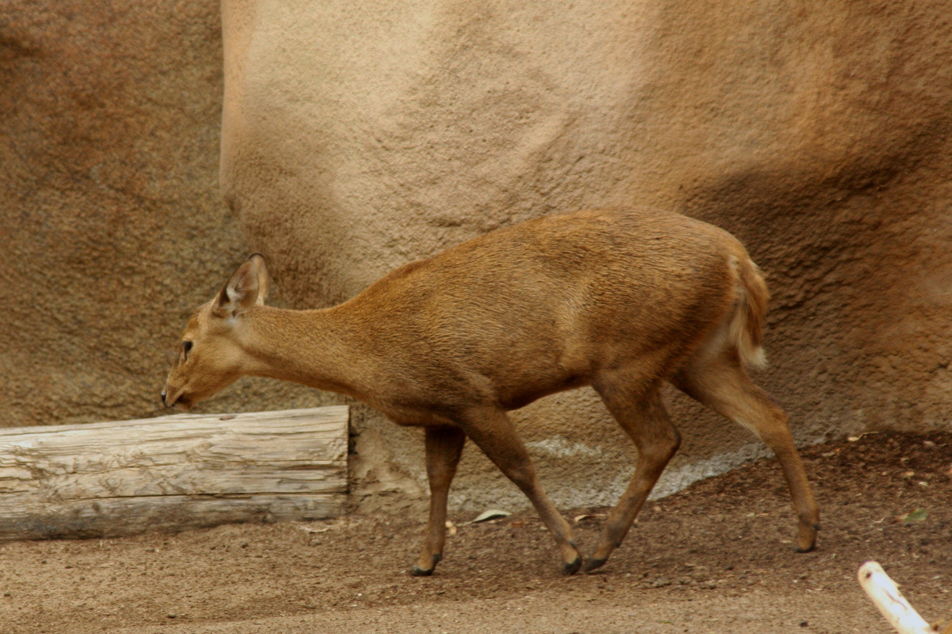 Axis calamianensis in San Diego Zoo-San Diego Ca.